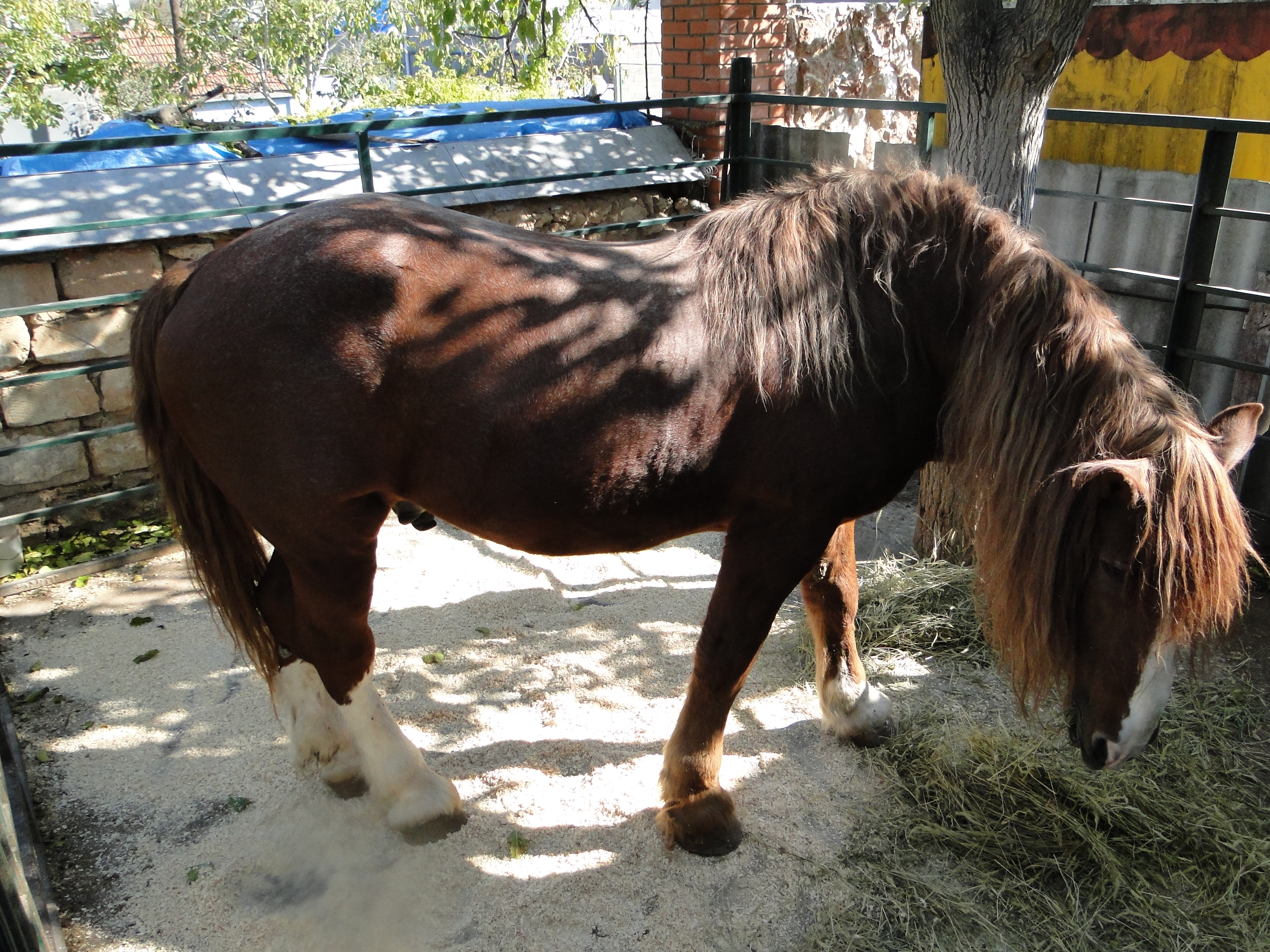 Soviet Heavy Draft Saygack. Sevastopol Zoo.